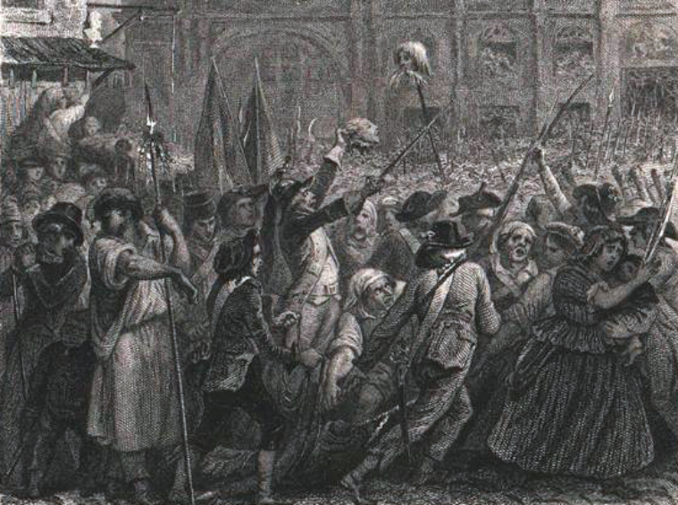 Massacre de Foulon et de Berthier, designed by Raffet and engraved by Frilley.